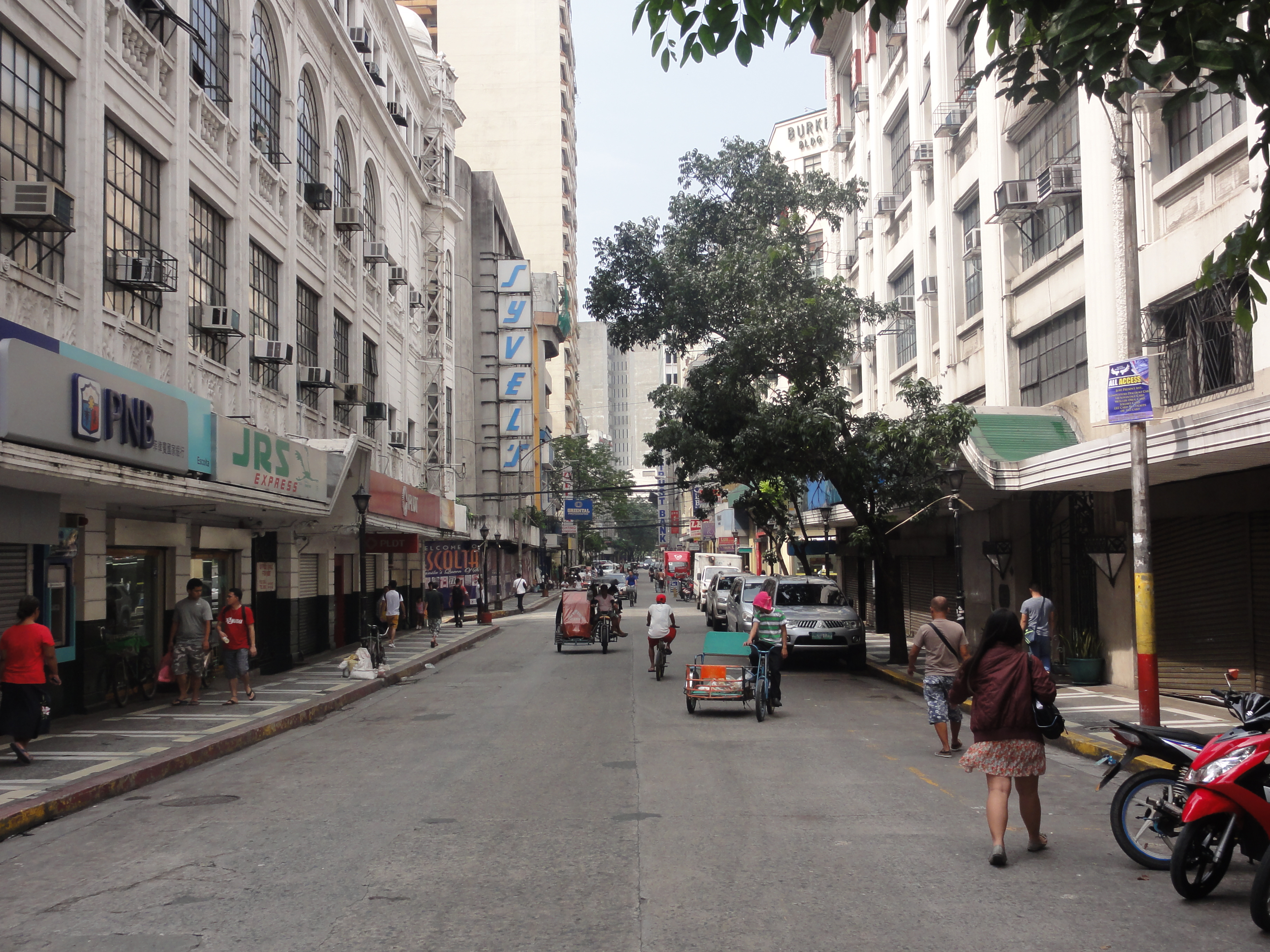 A landscape photo showing the view of Escolta Street in Binondo, Manila (as of October 2014). (View facing westbound)